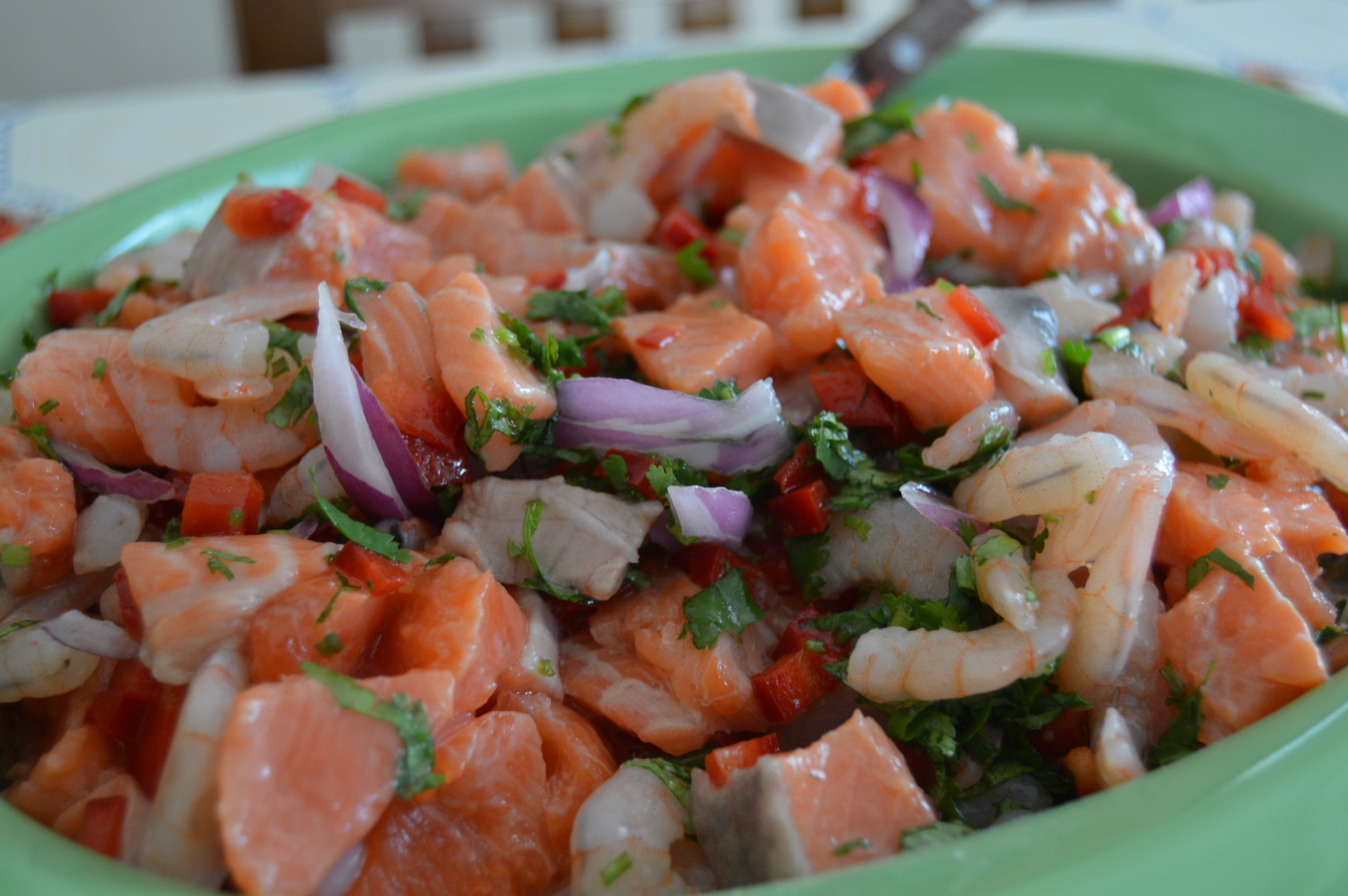 Ceviche with salmon, purple onion, shrimp, cilantro, lemon and spices.